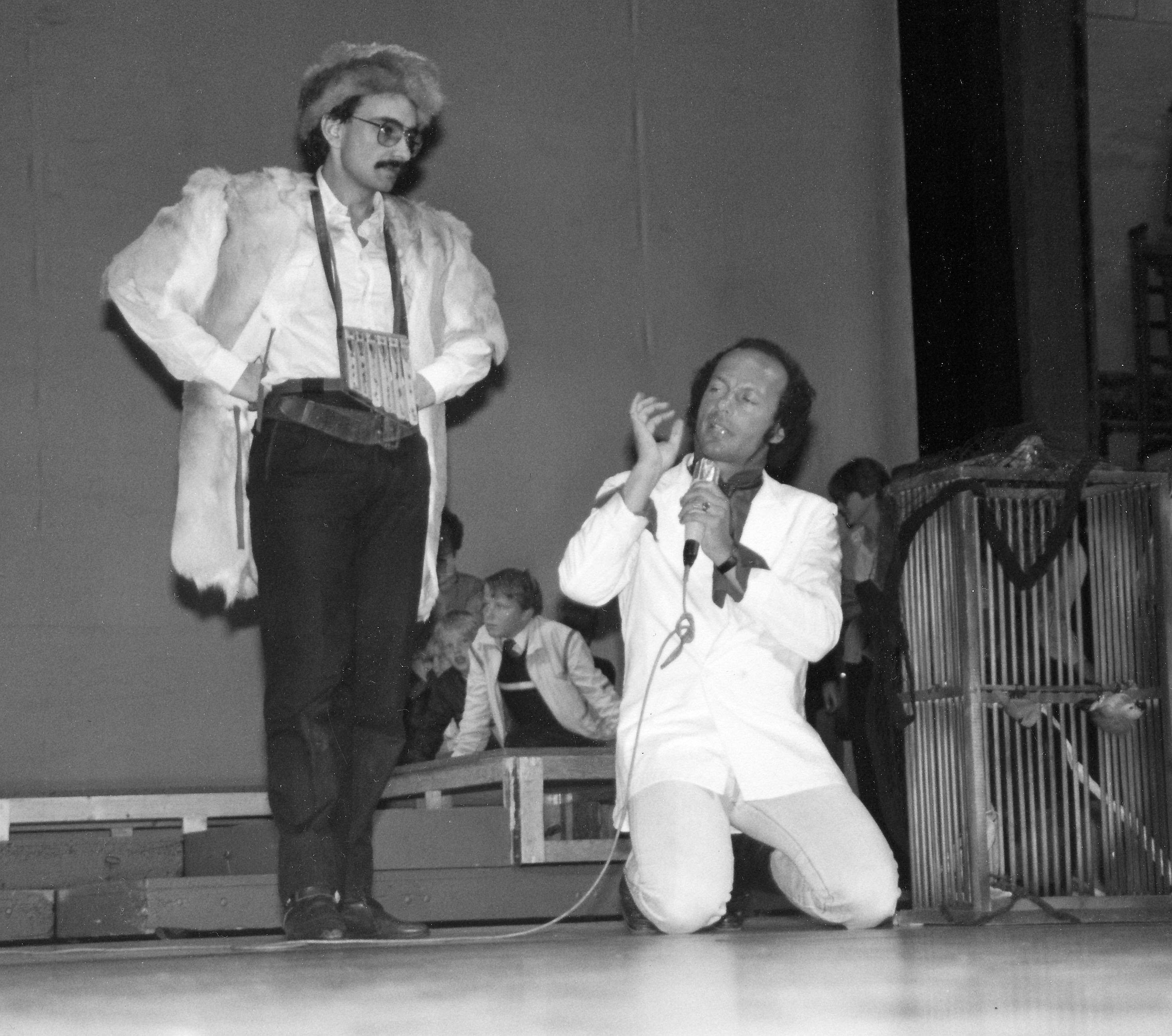 German opera singer Markus Schwendemann (1957-1994) in Papageno costume during a public rehearsal for Mozart's opera "The Magic Flute" together with director Peter Grisebach, Stadttheater Bremerhaven, Germany, c. 1986/87